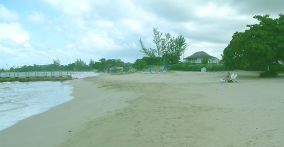 Ocean View Beach in Jamaica, looking east from the boundary of Breezes Hotel. Photo by User:Op. Deo November 13,2005.its a very nice place! :-)